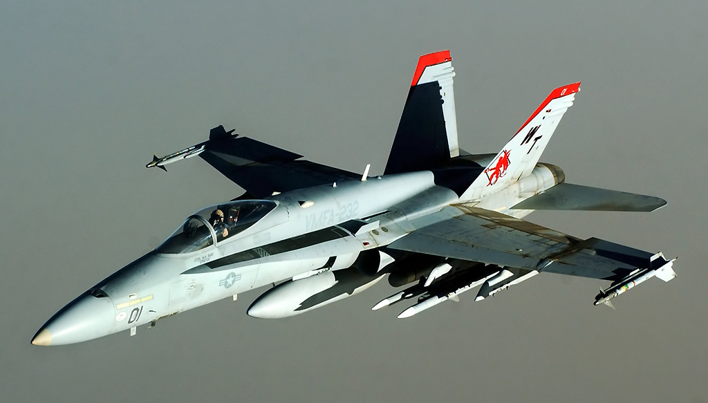 A U.S. Marine Corps F/A-18C Hornet assigned to the "Red Devils" of Marine Fighter Attack Squadron 232 (VMFA-232) continues on its mission after taking fuel from an Air Force KC-135 Stratotanker in the skies near Iraq while conducting a mission in Support of Operation Iraqi Freedom.